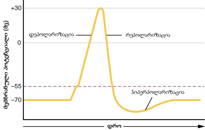 The file was downloaded from a Wikipedia page ( and the text was translated in Georgian, for the Georgian Wikipedia page